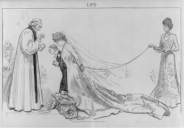 Caricature by Charles Dana Gibson against the practice of arranging the marriage of one's daughters to men on grounds of their wealth or aristocratic title, without much consideration of the personal characteristics of the groom. Shows blindfolded clergyman marrying couple; the mother of the bride holds a rope tied to the bride's wrists; small, meek groom.